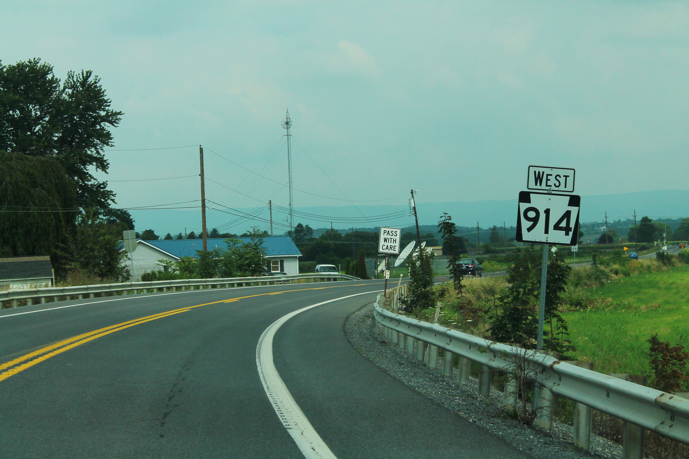 PA914wRoadCurveSign